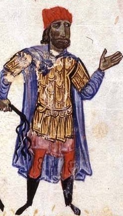 Georgios Maniakes reproaches admiral Stephanos, detail of miniature from the Madrid Skylitzes, Fol. 213v top